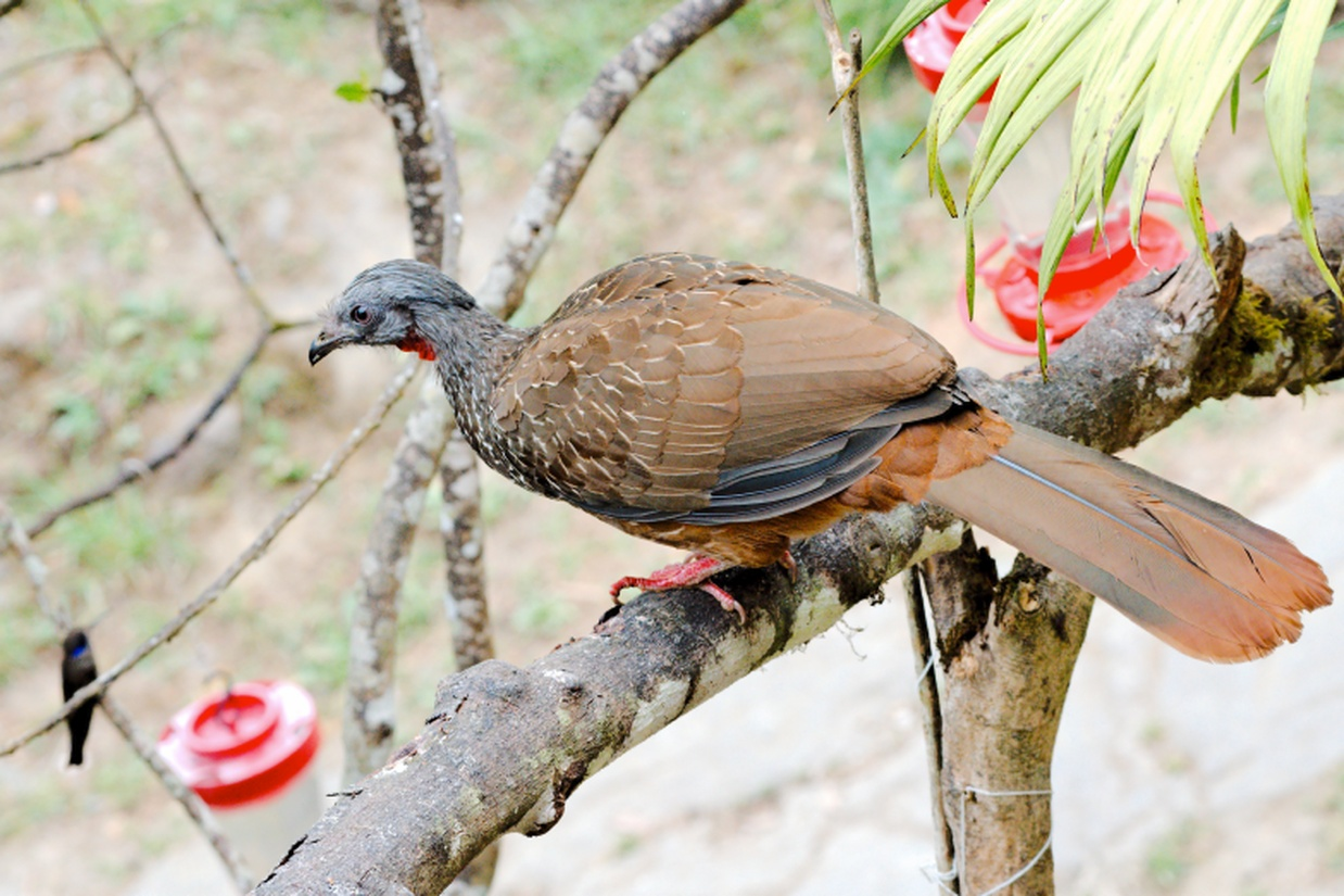 seen at Sierra Nevada de Santa Marta National Park at some hummingbird feeders